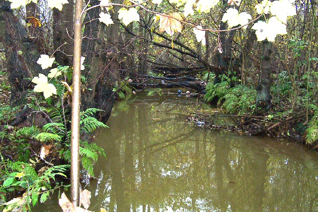 The River Bourne, in Virginia Water, Surrey. The Bourne flowing through dense woodland just downstream of Waterloo Bridge on Trumpsgreen Road, viewed looking eastwards and downstream.